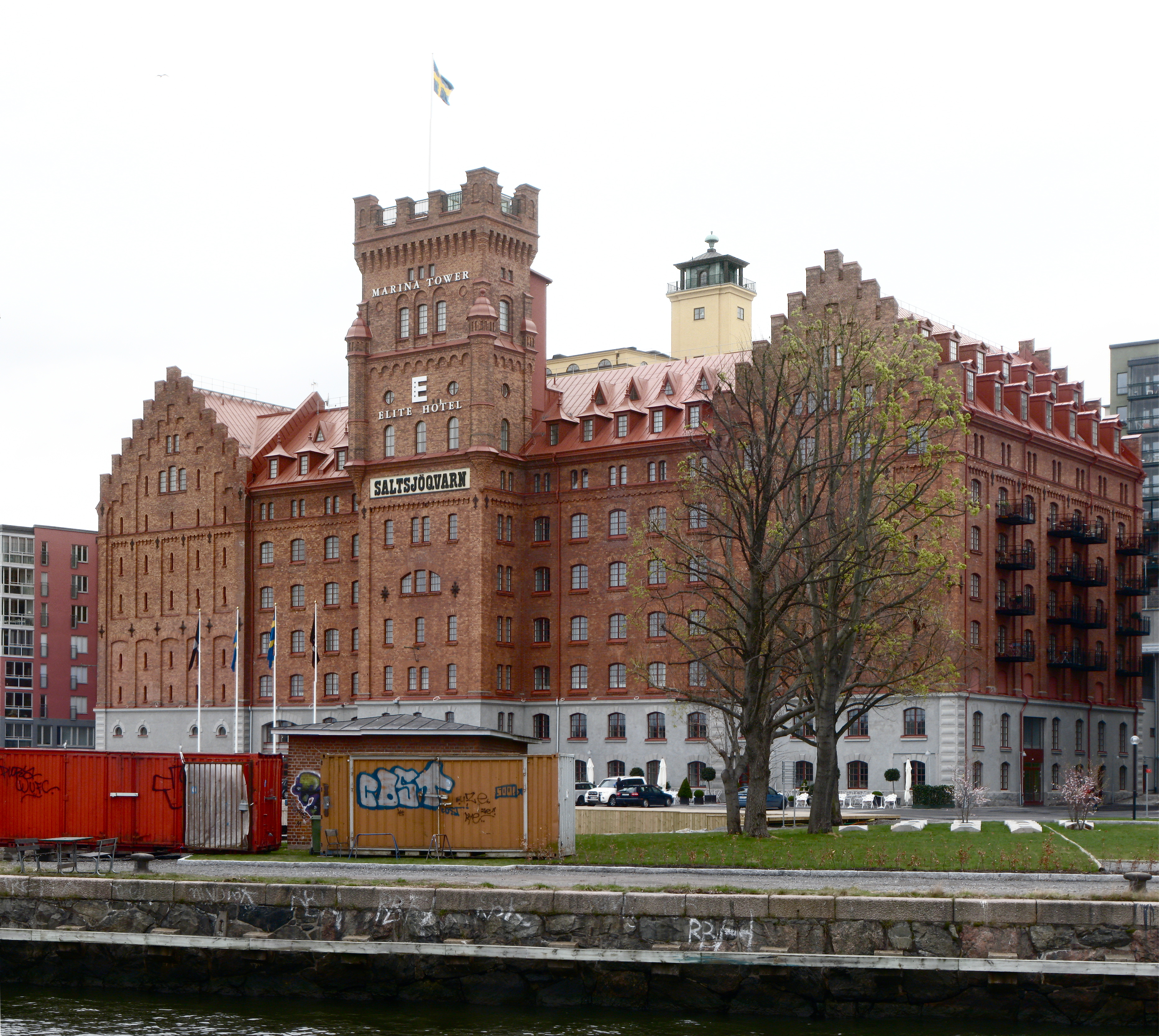 Saltsjökvar, May 2010. Panoramic image created from nine images.